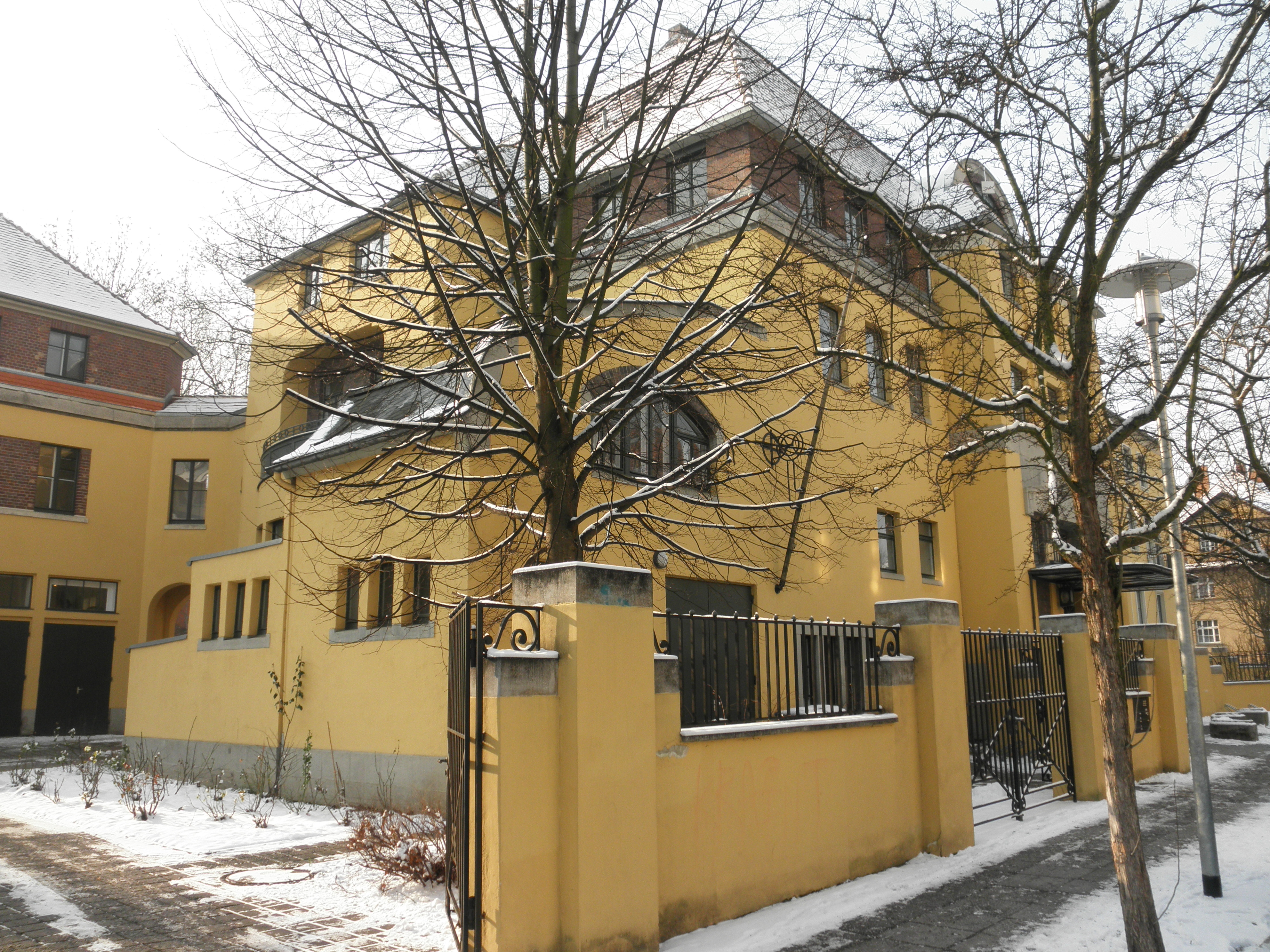 Villa Duerckheim in Weimar in Thuringia